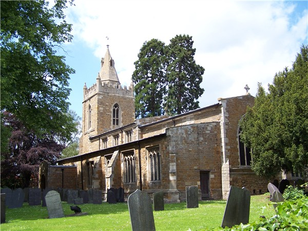 Great Bowden Parish church taken by kev747